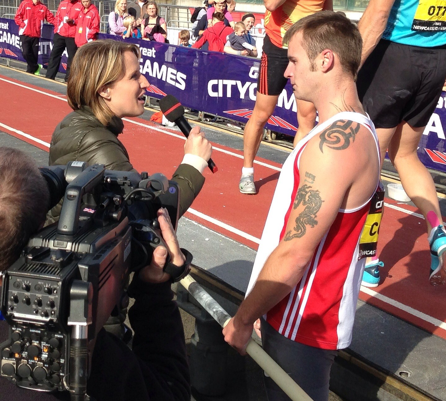 Katherine Merry for BBC Sport interviewing British pole vaulter Luke Cutts at the 2013 Gateshead Great City Games vault (Bjorn Otto in background)